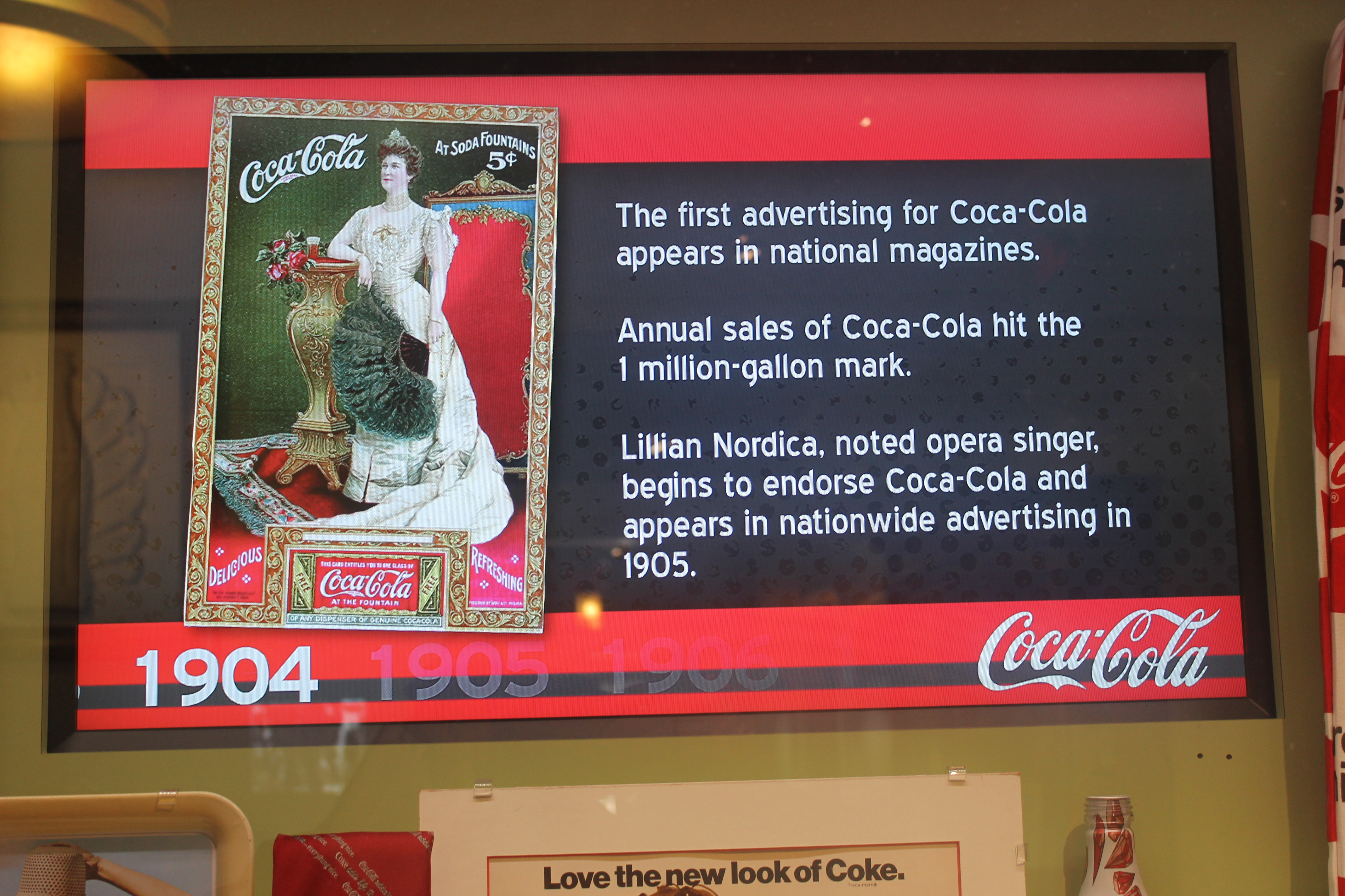 Lillian Nordica, opera singer, advertises Coca Cola, 1904, at Biedenharn Museum and Gardens in Monroe, LA